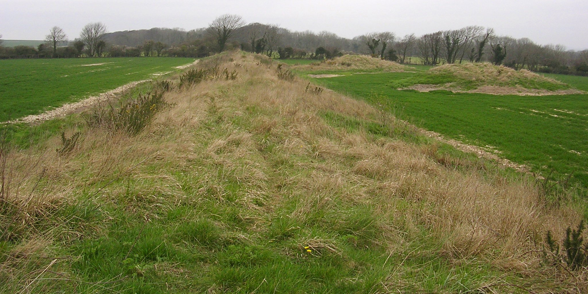 View along the top of Broadmayne bank barrow, Dorset. Two round barrows can be seen to the right.